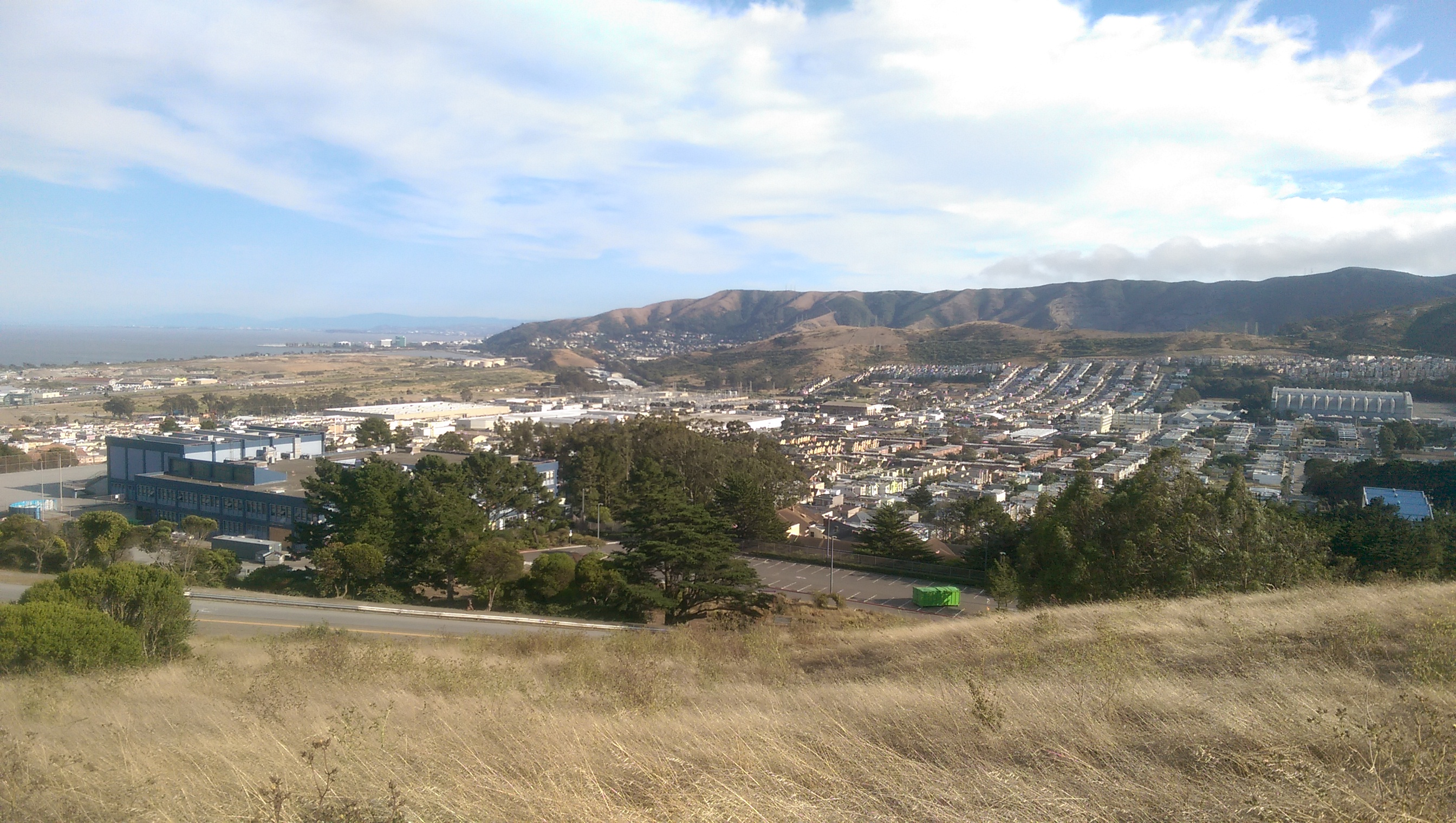 Visitacion Valley, at the southeastern part of San Francisco.